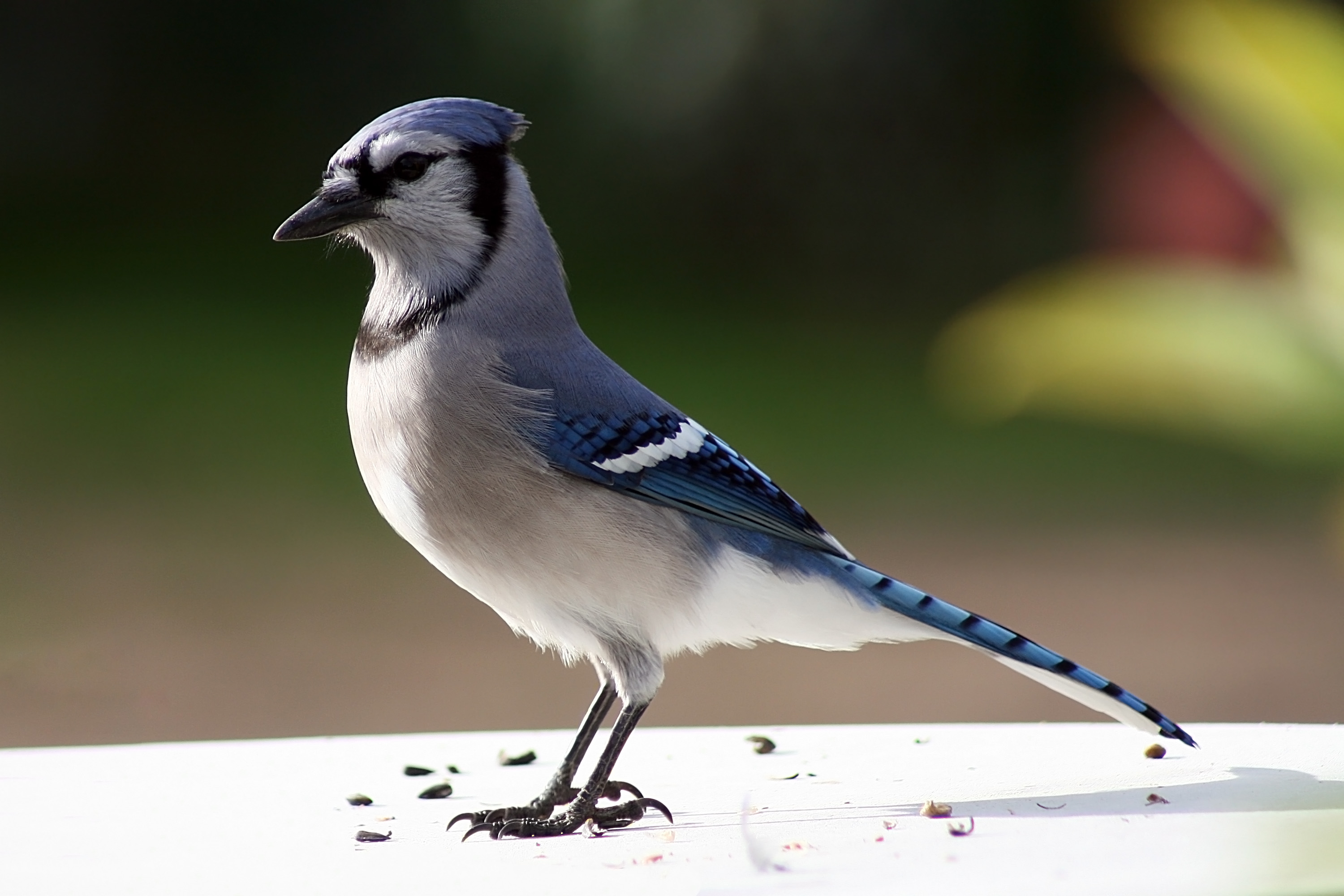 Blue Jay (Cyanocitta cristata) – Ontario, Canada